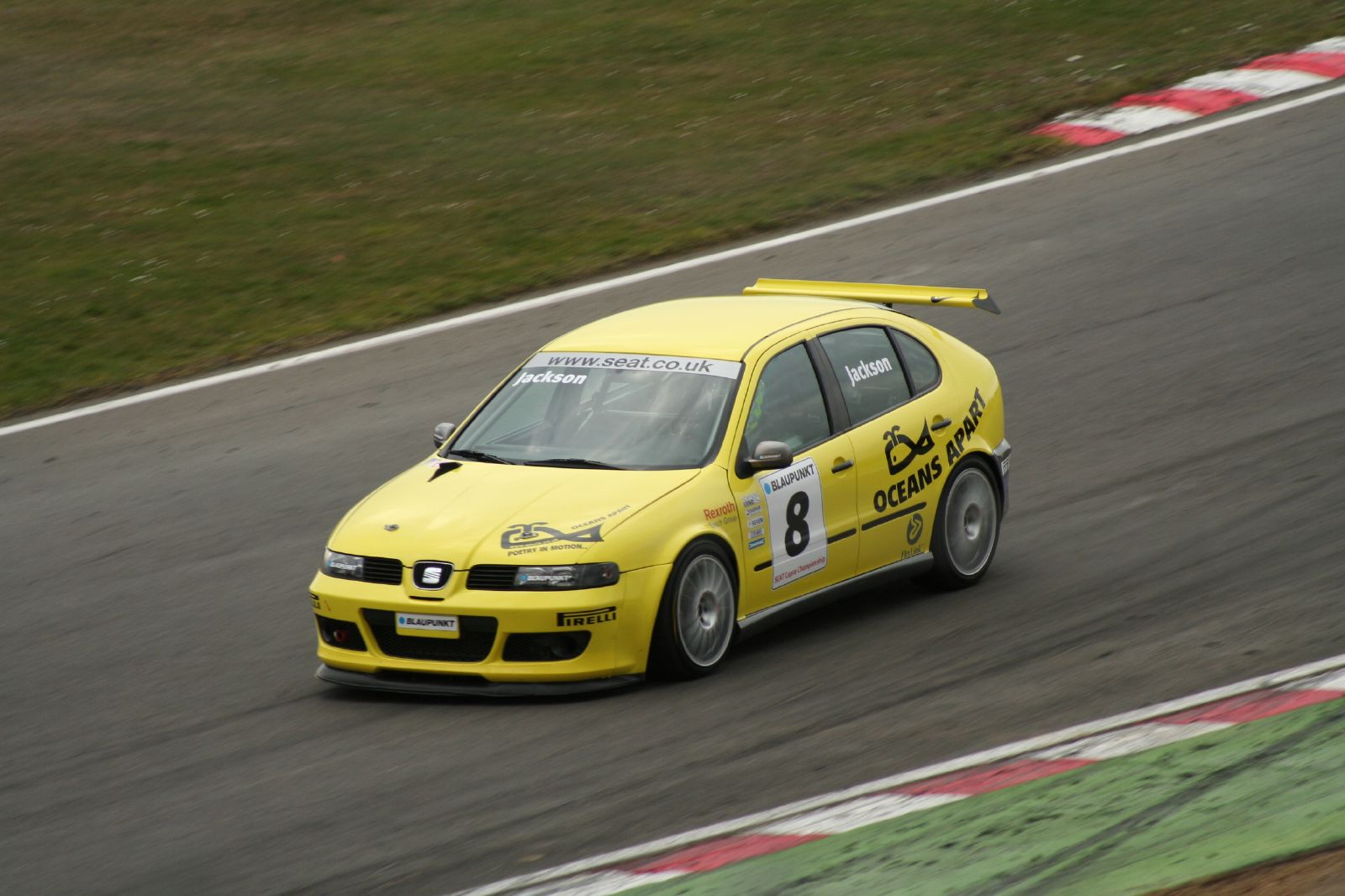 Mat Jackson in SEAT Leon Cupra(2006 SEAT Cupra Championship season)